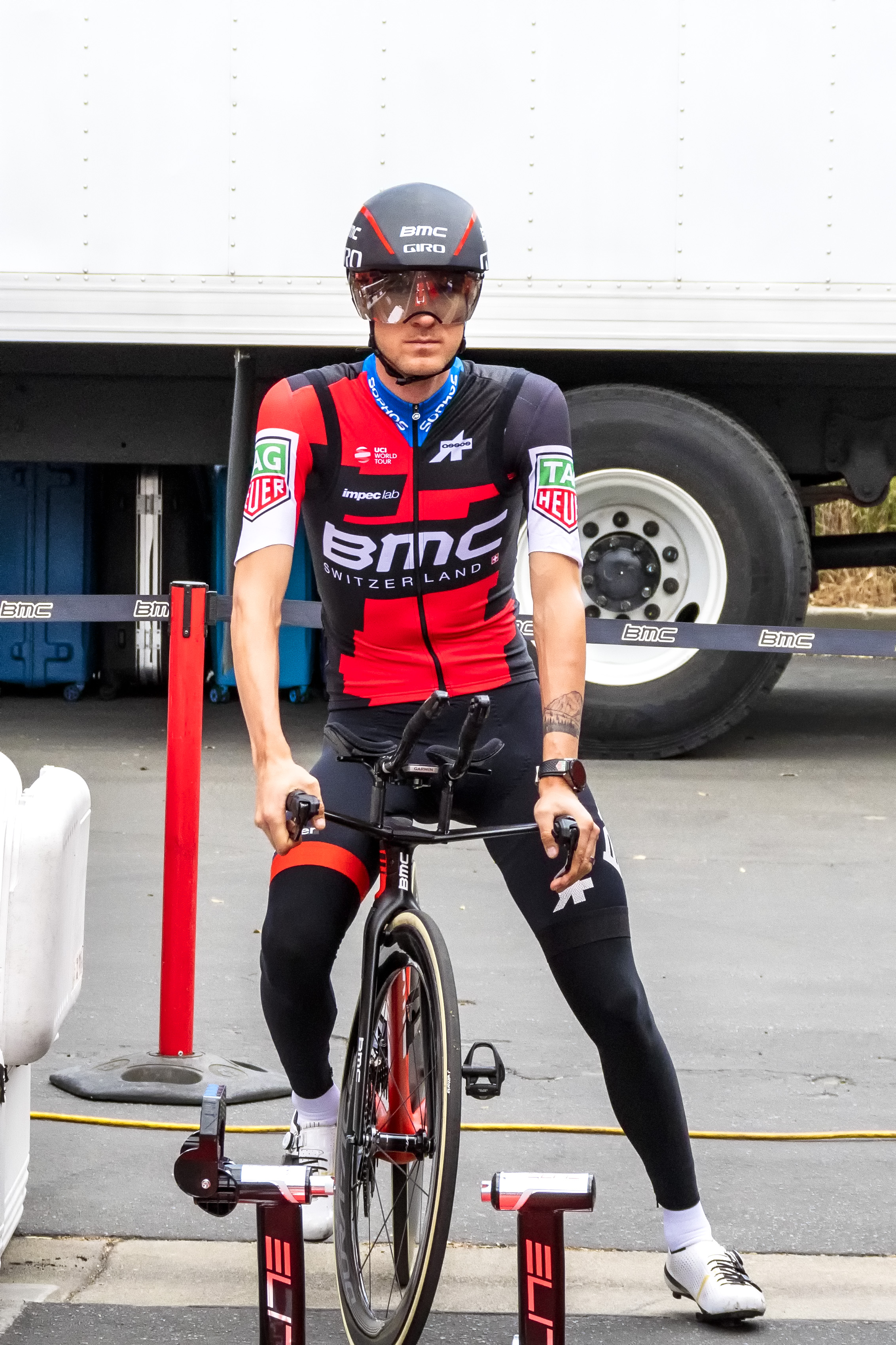 Amgen Tour of California 2018 Stage 4 Time Trial in Morgan Hill UCI World Tour